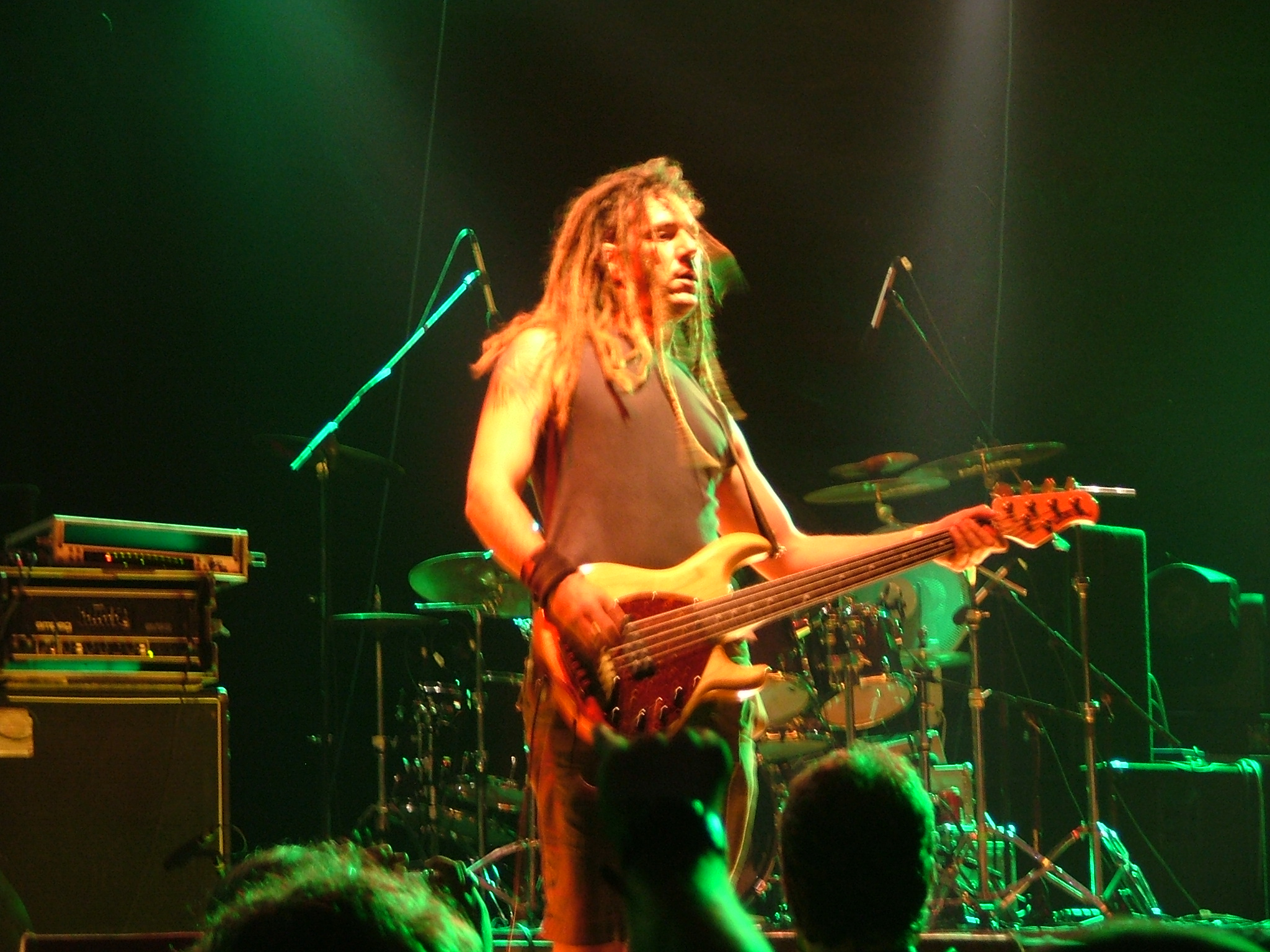 Austrian progressive metal band Deadsoul Tribe at the Metalcamp in Tolmin